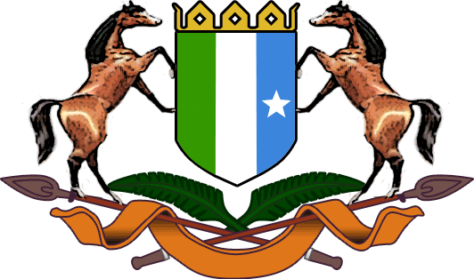 Coat of arms of the state of Puntland in Somalia